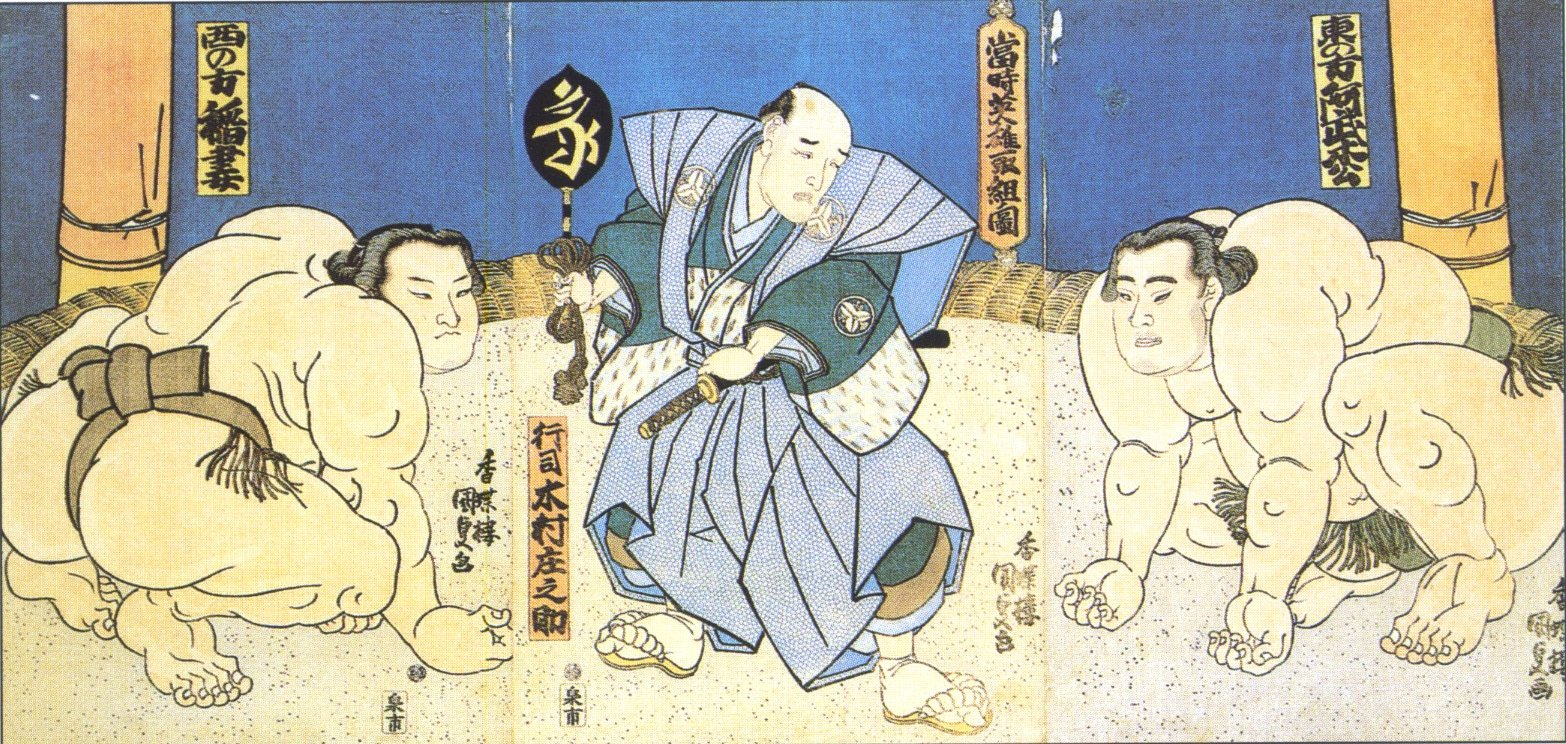 Sumo bout between Ōnomatsu and Inazuma